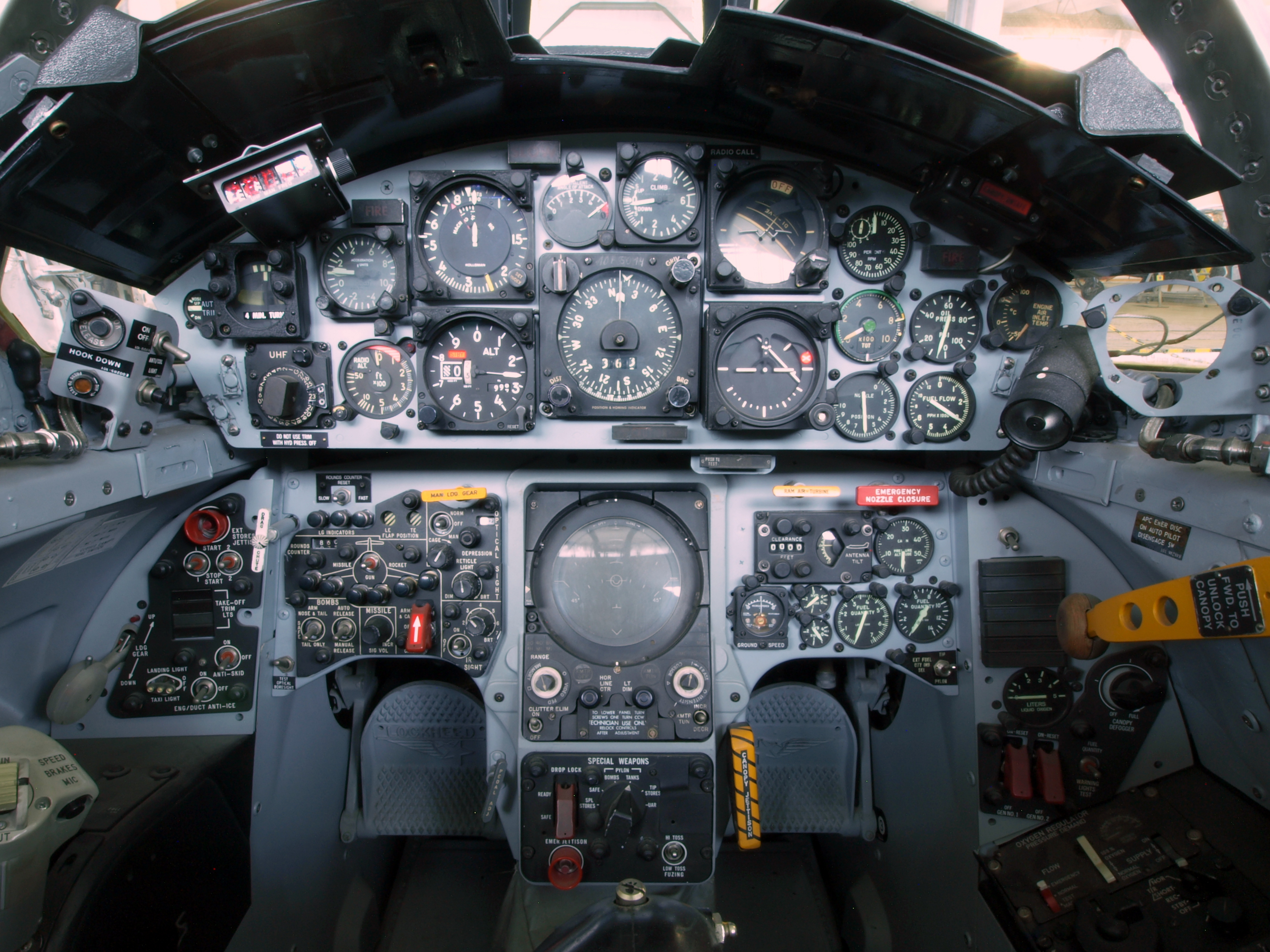 Luftwaffe F-104 Starfighter cockpit 25+29